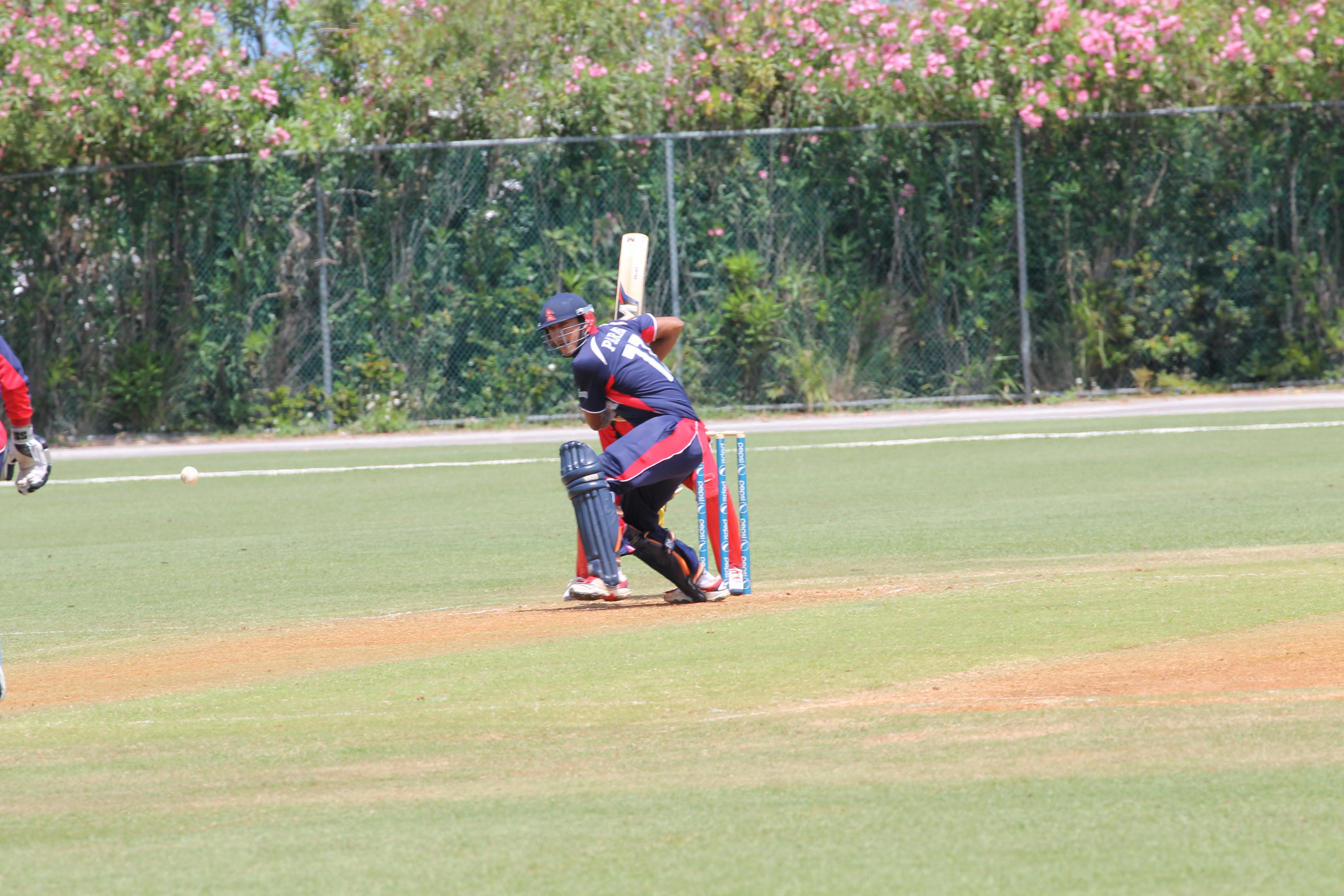 Paras Khadka, Captain of Nepali cricket team.By:Roshan Bahadur Singh